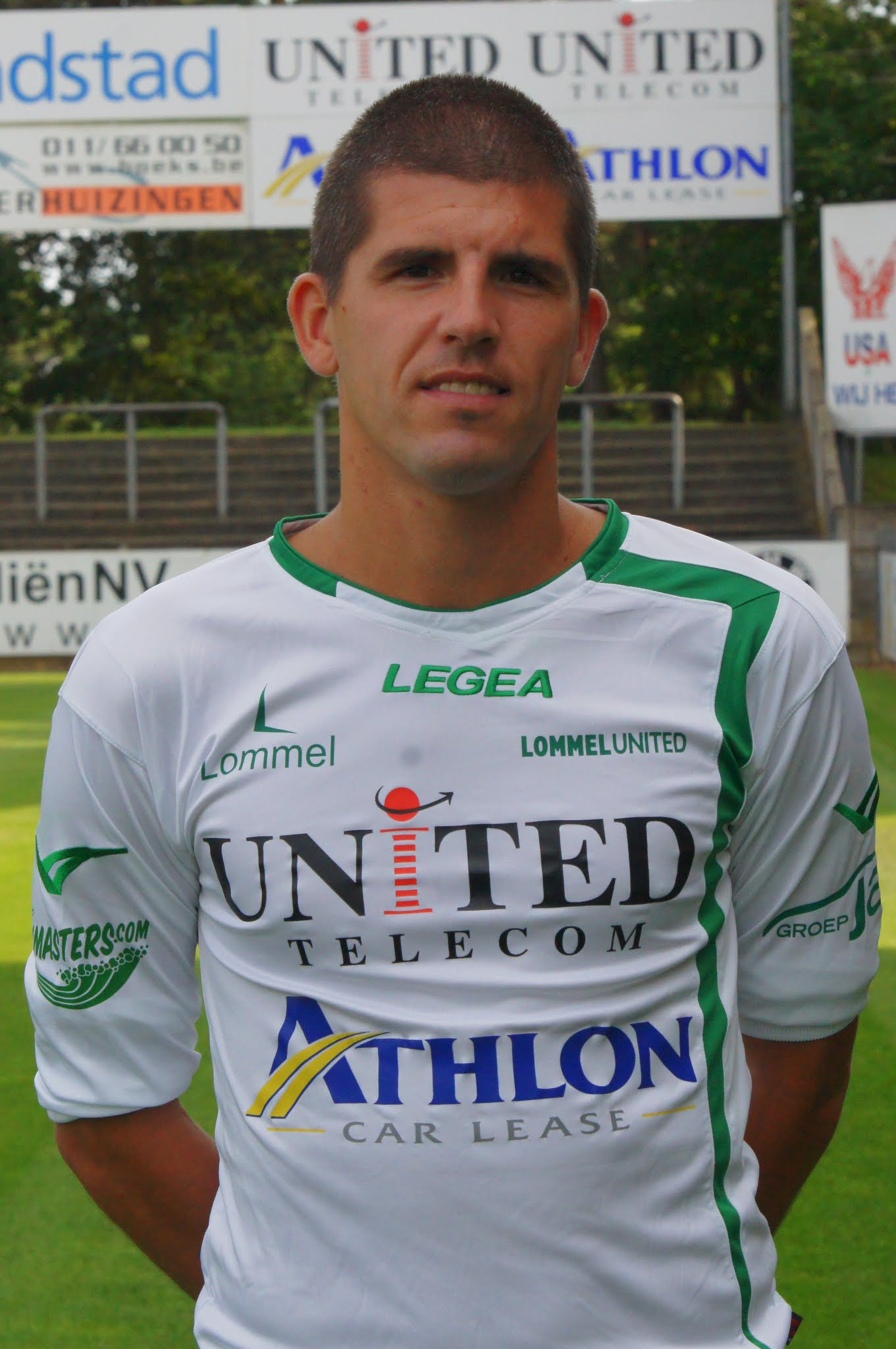 Attacker